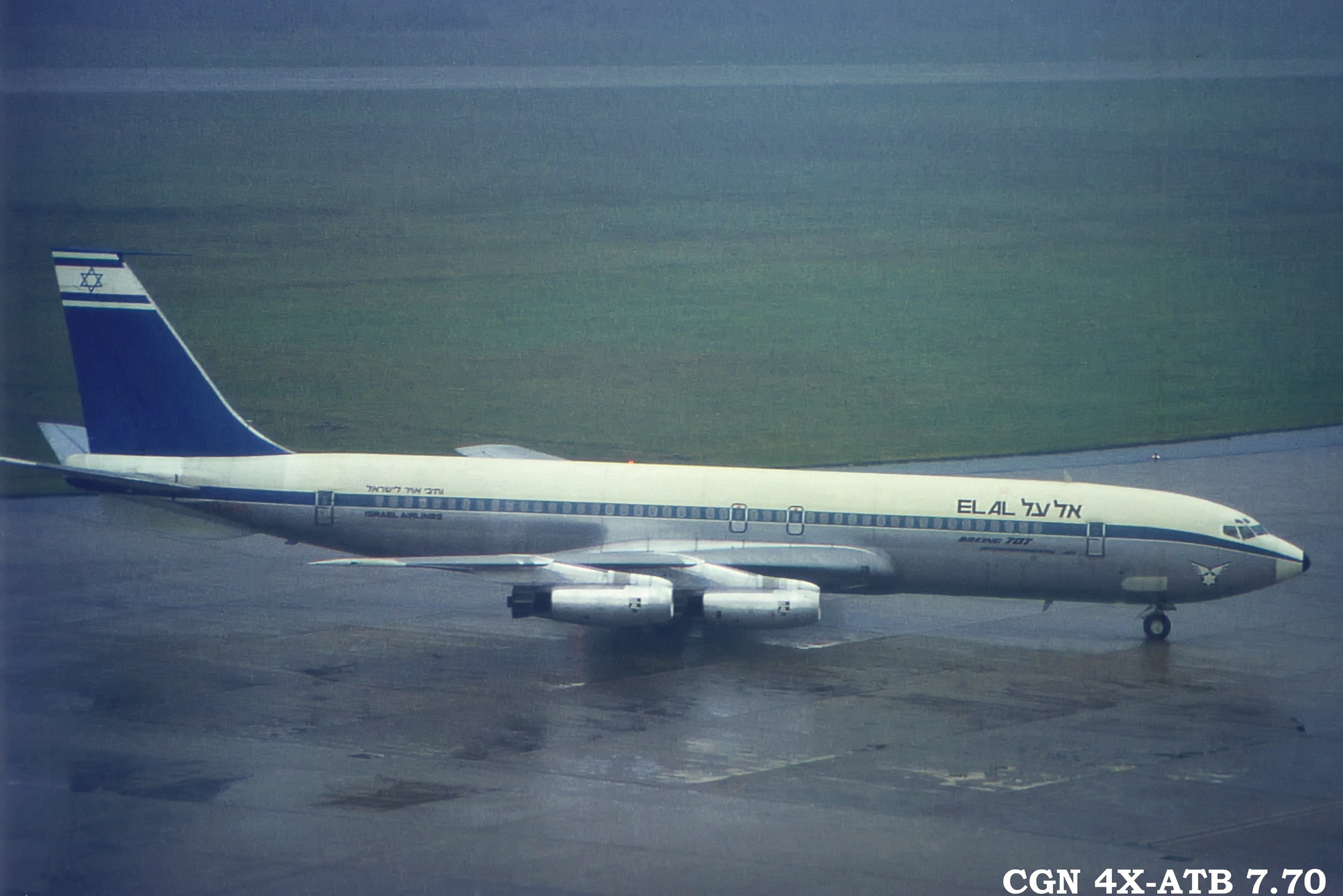 4X-ATB, El Al Boeing 707-458, at Cologne